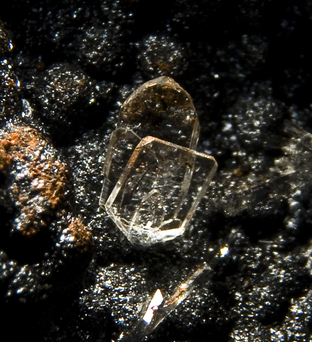 Hemimorphite - Ojuela Mine, Mapimí, Mun. de Mapimí, Durango, Mexico (XX1mm)